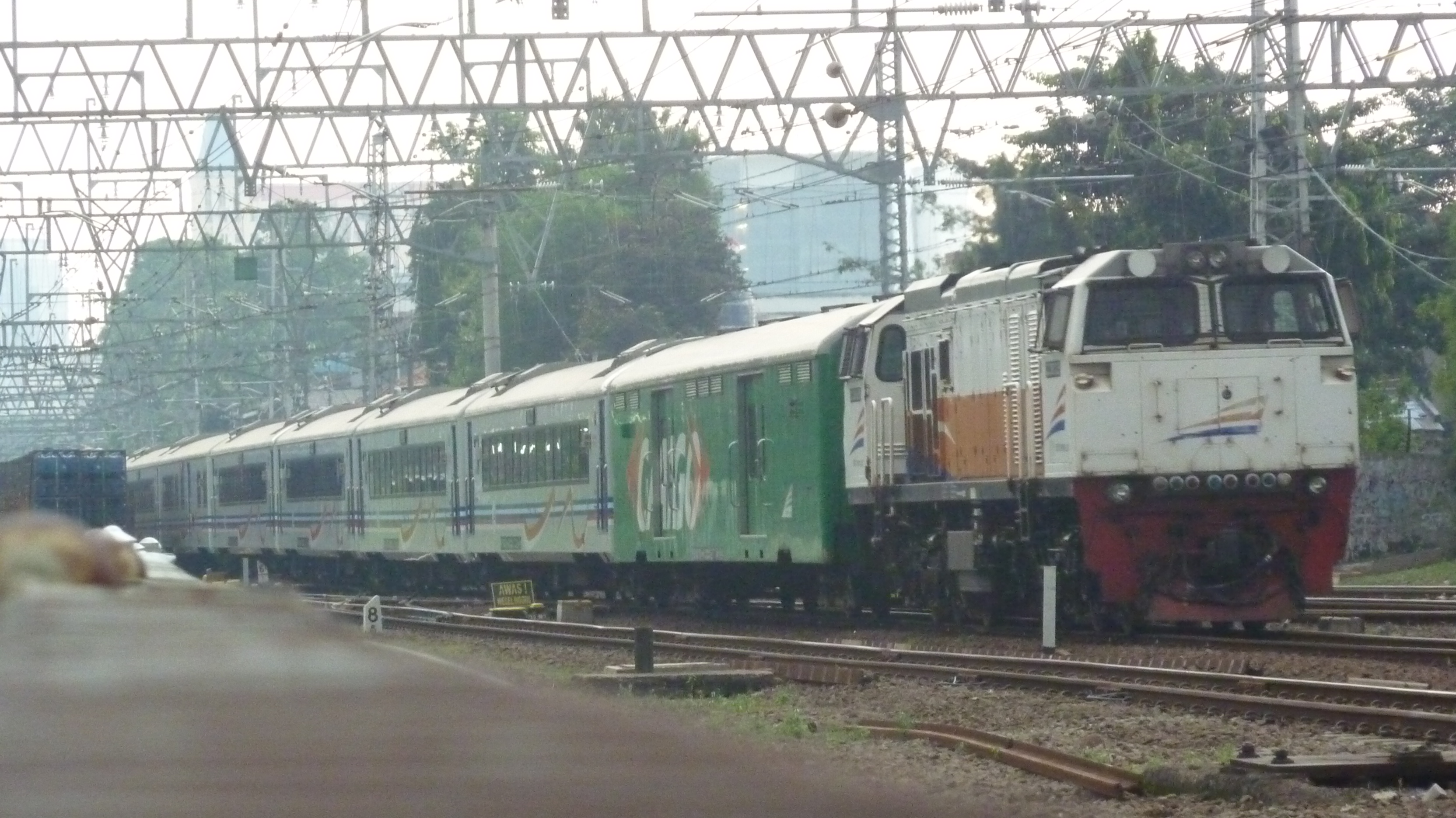 Executive class train no. #44 Biru Malam bound for Surabaya Gubeng and Malang from Jakarta Gambir with the newest 2016 generation executive trainset headed by a single GE CM20EMP no. CC2061329 passes Manggarai Station in South Jakarta, Indonesia, July 2016.